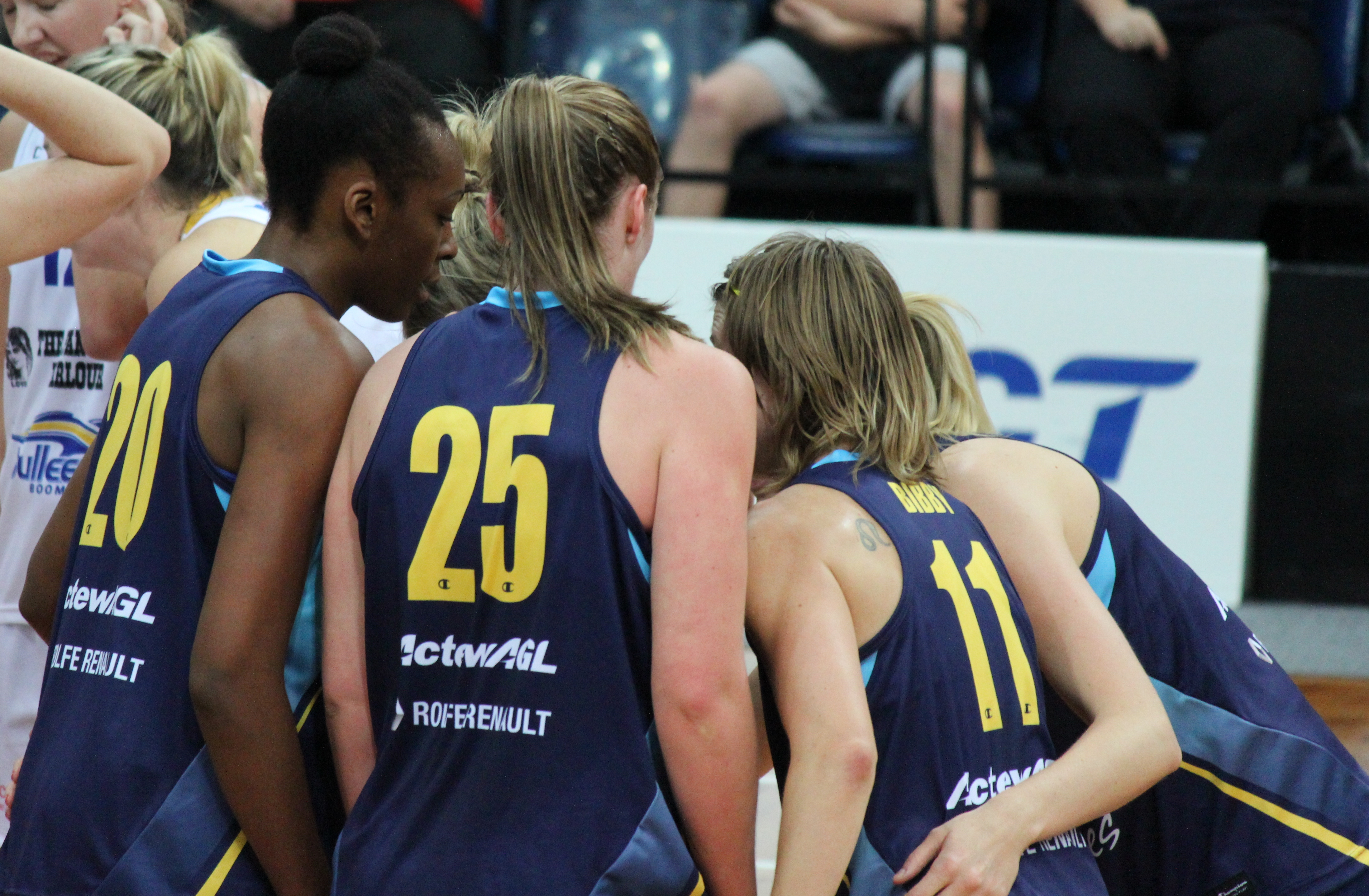 Canberra Capitals played the Bulleen Boomers on 20 October 2012 at AIS Arena where the Caps won by 1 in the third round.